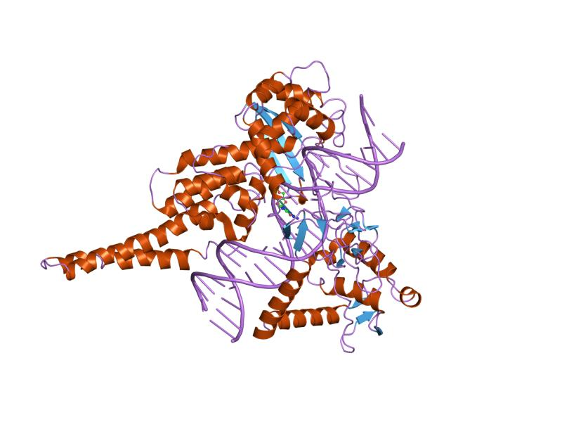 Cartoon representation of the molecular structure of protein registered with 1lpq code.